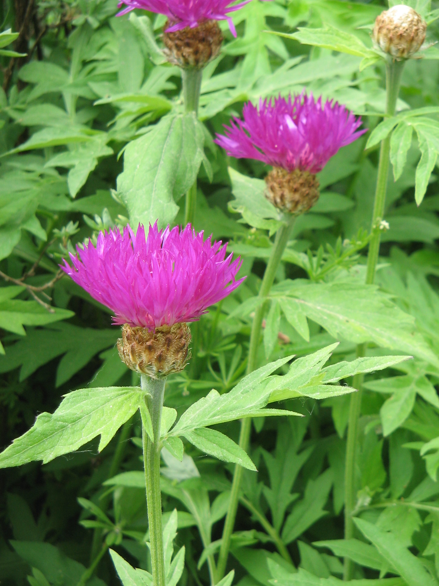 Centaurea dealbata